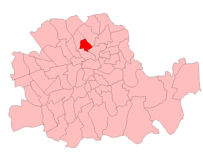 A map of Islington South constituency within the London County Council area, as it existed from 1918 to 1949.